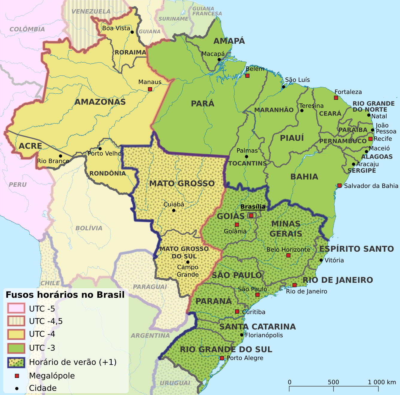 Time zones in Brazil (Portuguese)